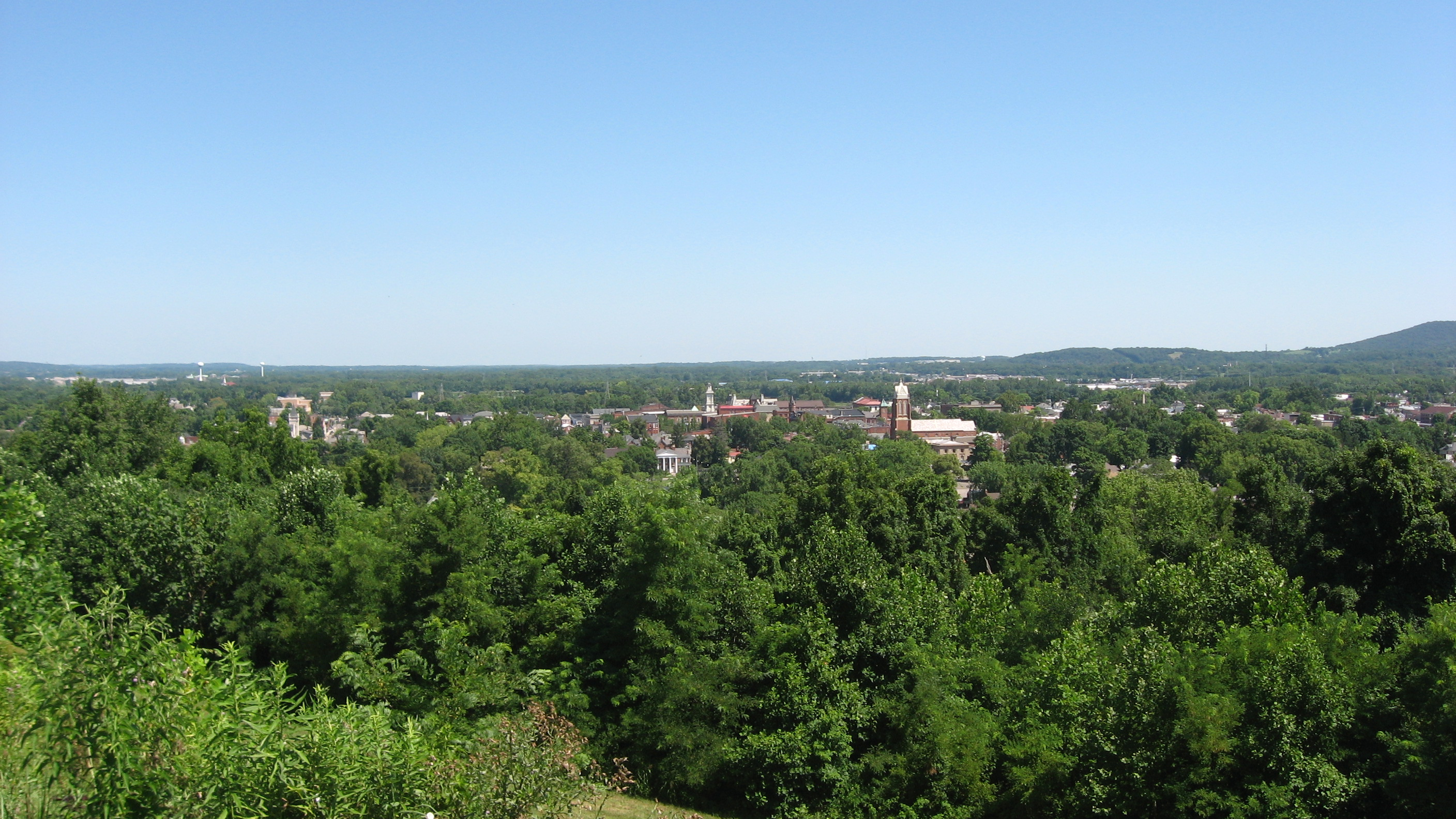 Overview of the city of Chillicothe, Ohio, United States, from the southwest. Photo is taken from the edge of Grandview Cemetery, southwest of the city's downtown.